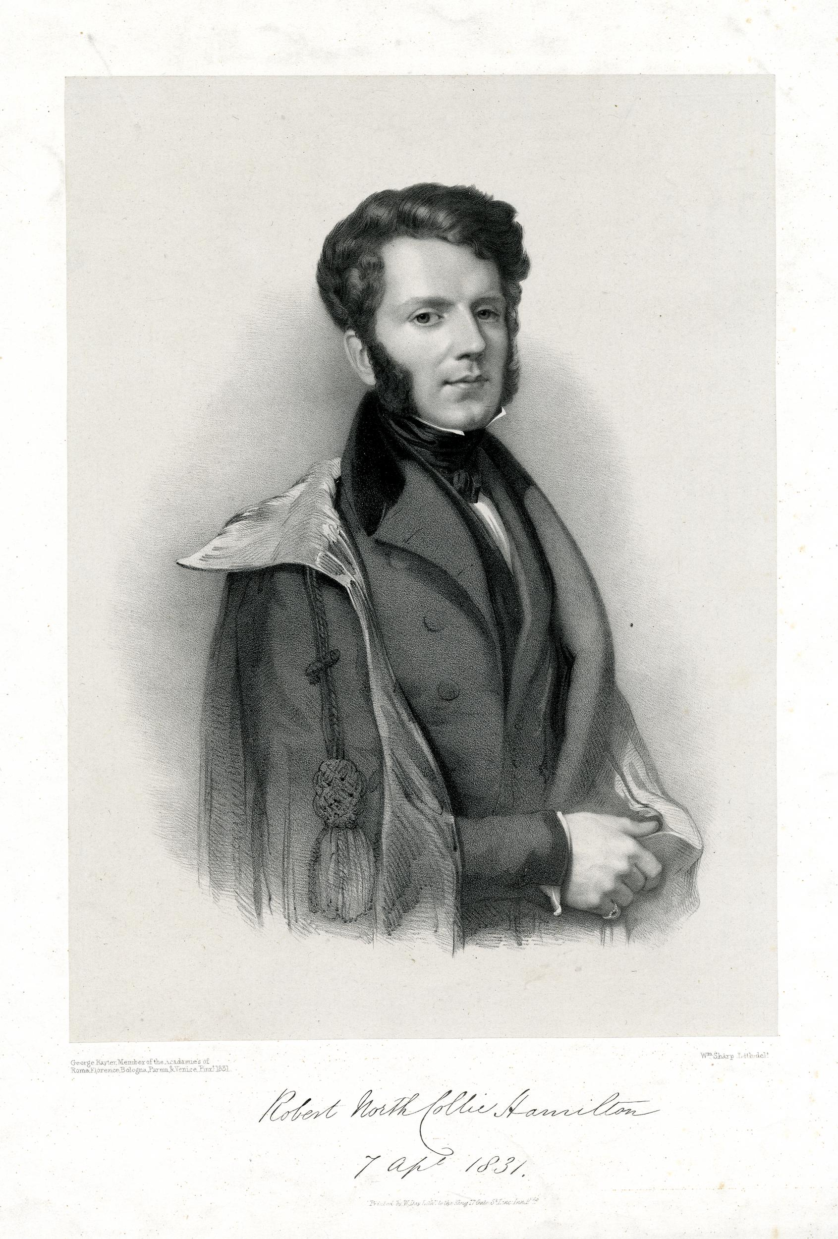 Portrait of Sir Robert North Collie Hamilton, 6th Baronet, half-length, turned to right, looking to the viewer, wearing a jacket, waistcoat and cravat, and a cloak, his right hand to waist; after a painting by Hayter Lithograph on chine collé